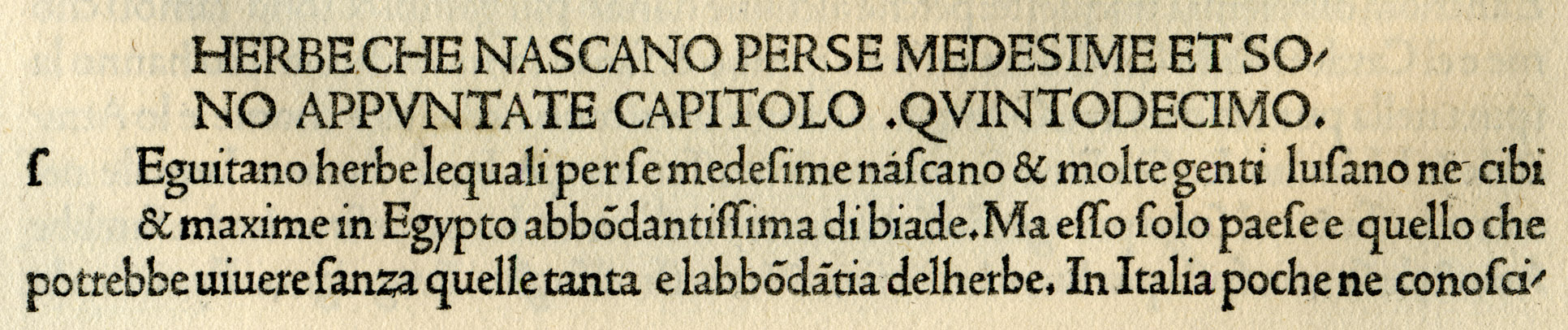 Print of 1476 of Pliny the Elder in Italian, printer: Jenson